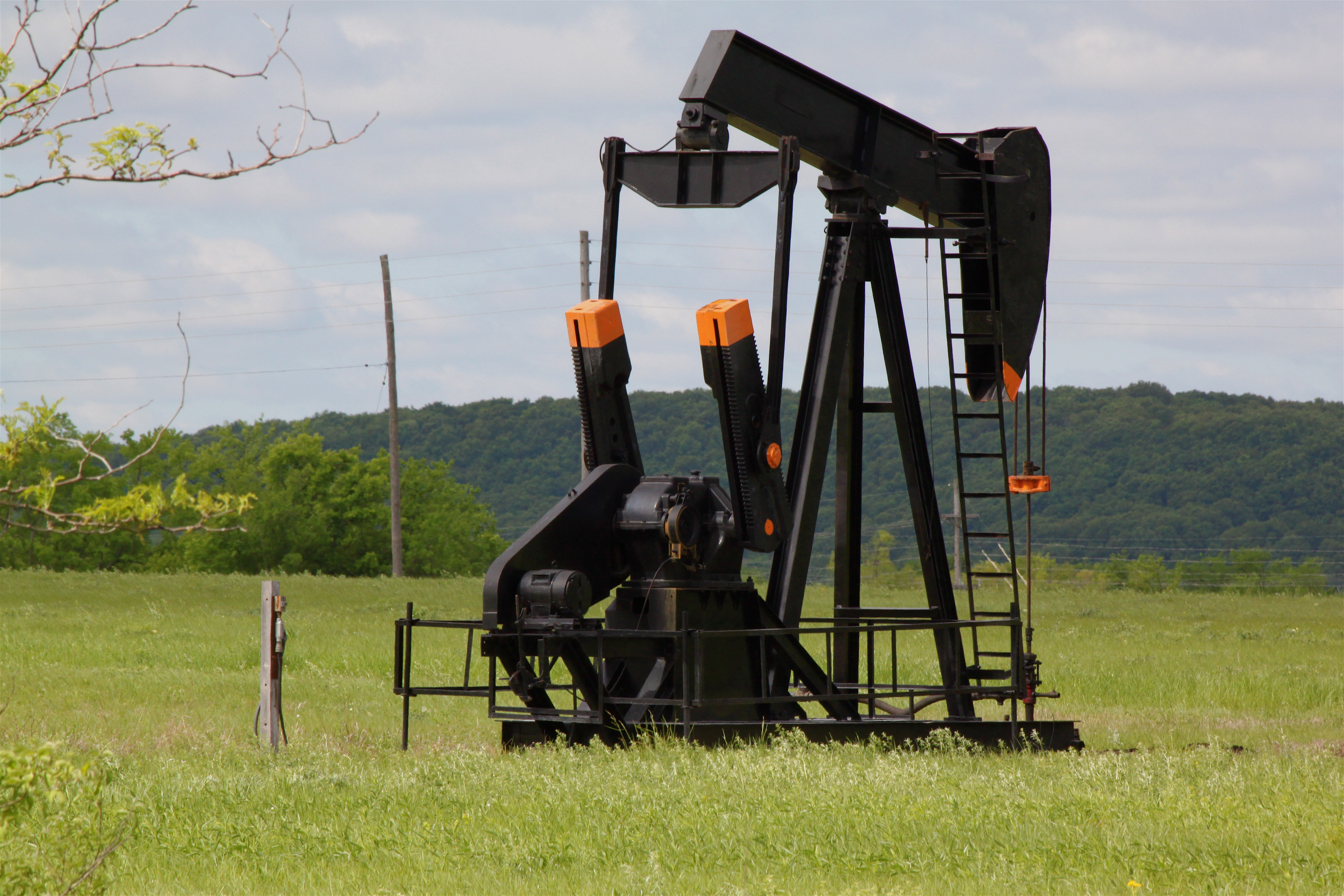 Oil pump in Glenpool, Oklahoma.